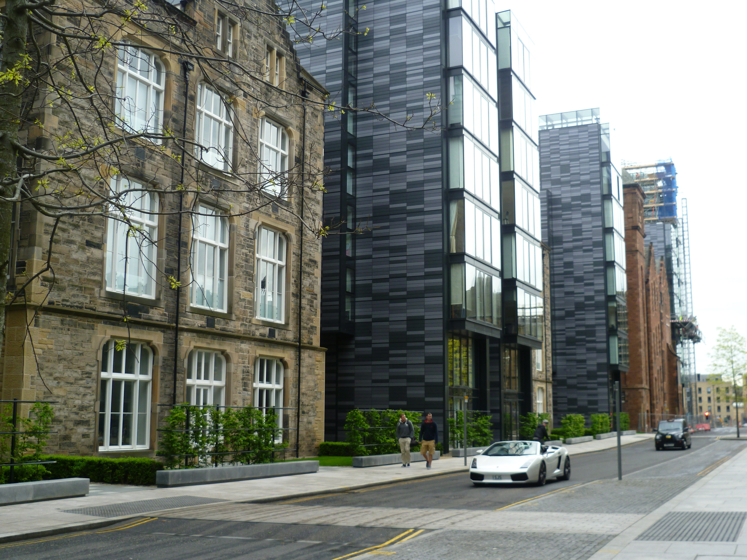 Simpson Loan, Quartermile Development, Edinburgh